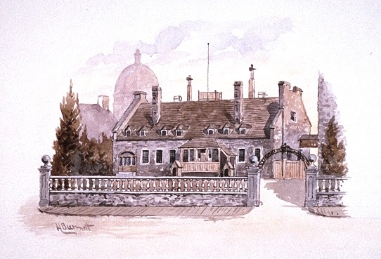 Painting, Chateau De Ramesay, Montreal, Watercolour on paper, 17.9 x 25.6 cm